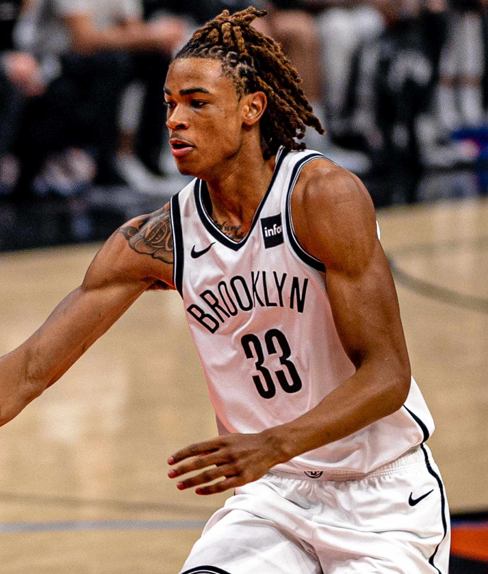 Kevin Porter Jr. of the Cleveland Cavaliers (center) drives while Iman Shumpert (left) and Nicolas Claxton of the Brooklyn Nets defend during a 2019 game at Rocket Mortgage FieldHouse in Cleveland.